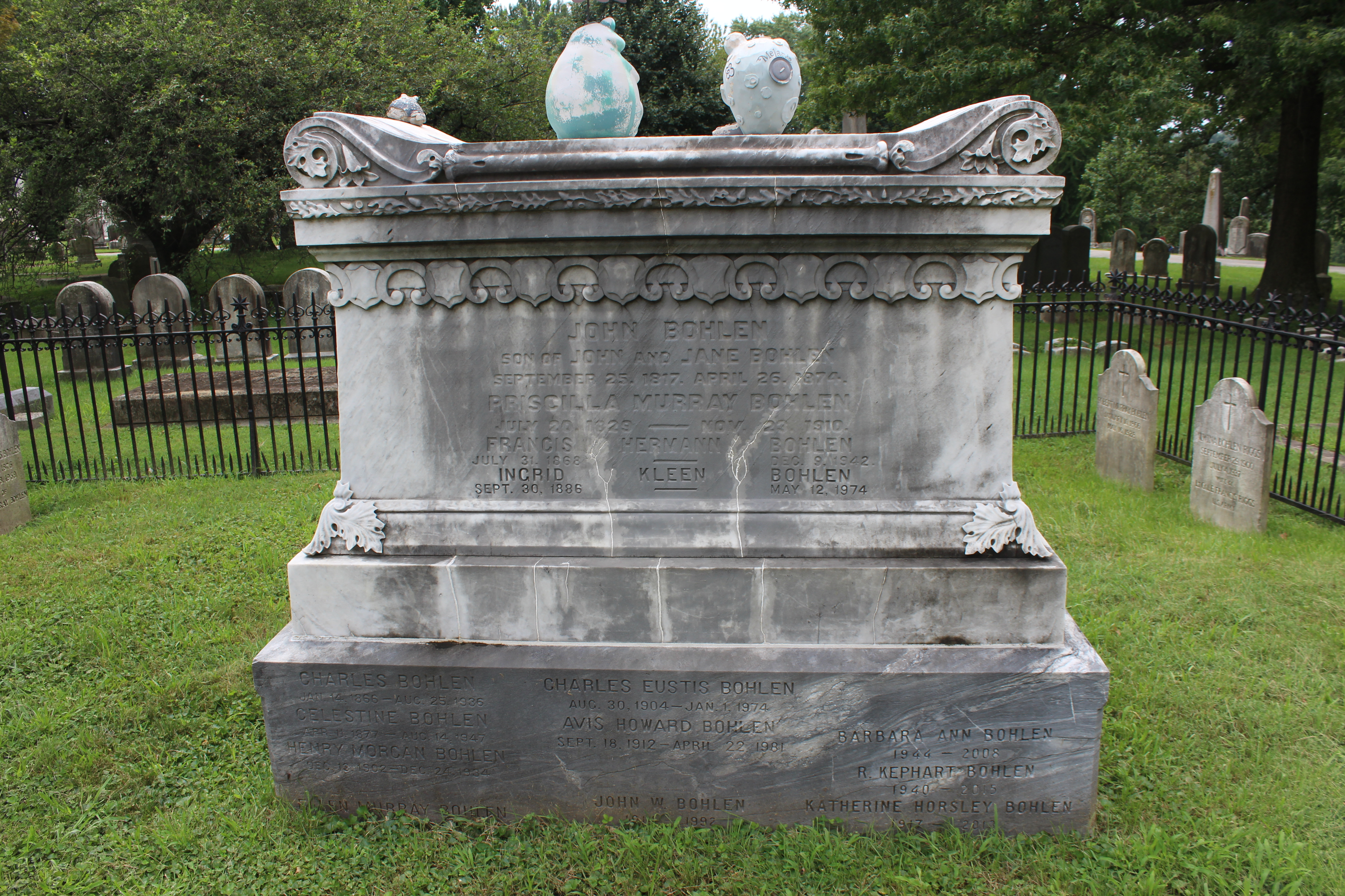 Bohen Family Plot at Laurel Hill Cemetery. Contains the graves to Charles E. Bohlen and Francis Bohlen. Photo taken August 2020.